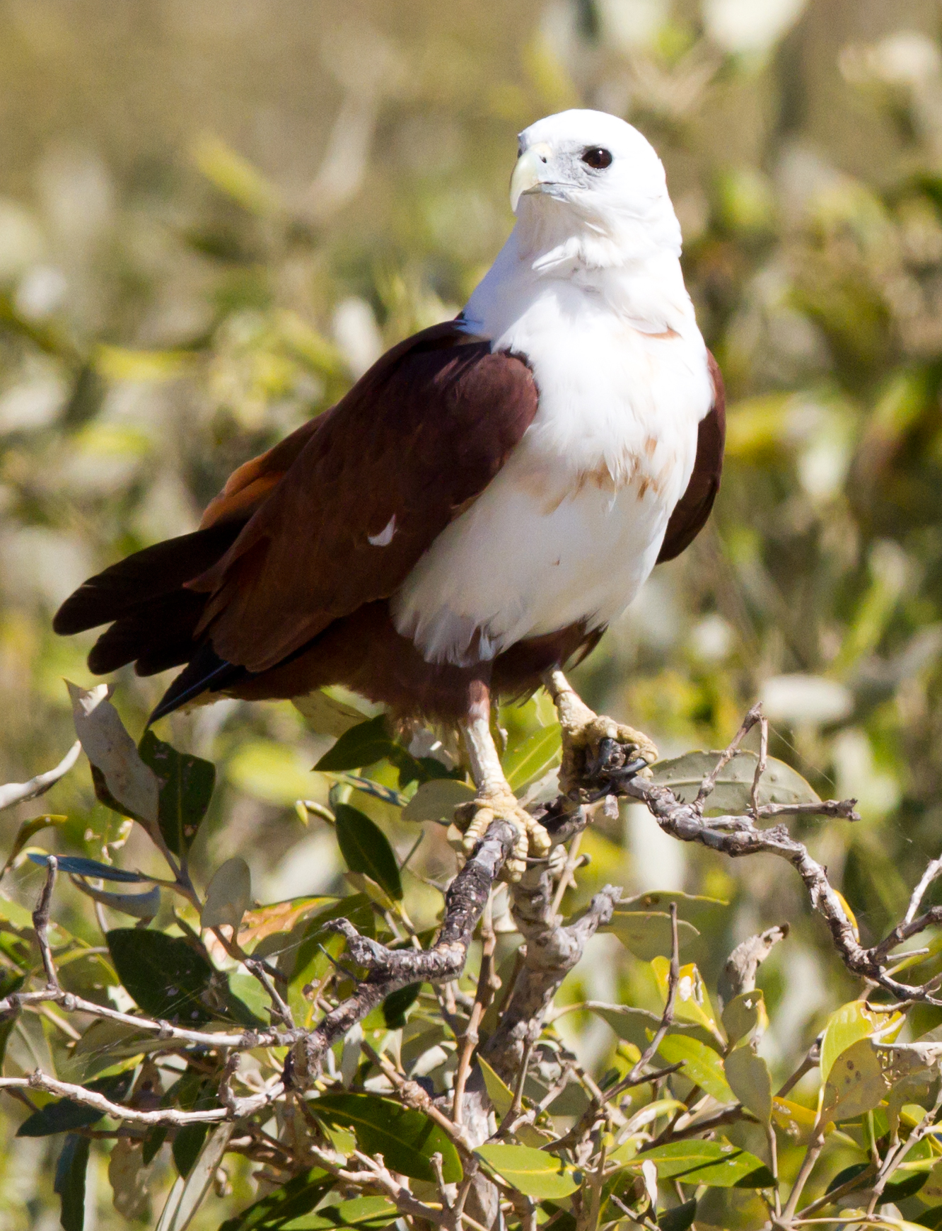 A Brahminy Kite perching in a tree in Karratha, Pilbara, Western Australia, Australia.